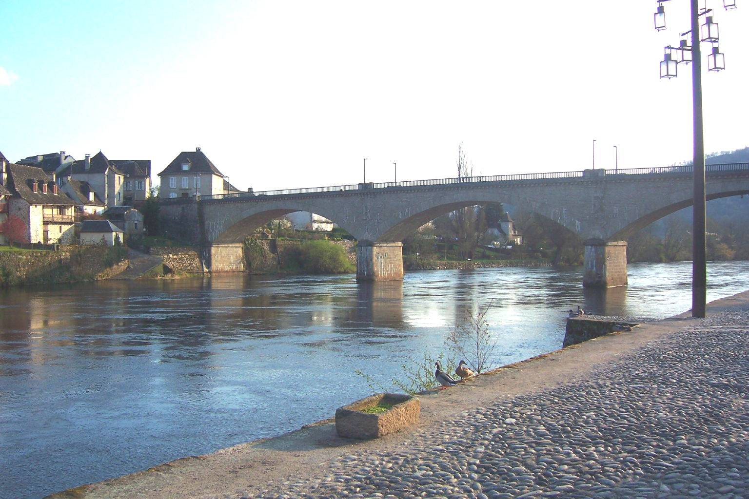 Bridge over Dordogne River in Town of Argentat.